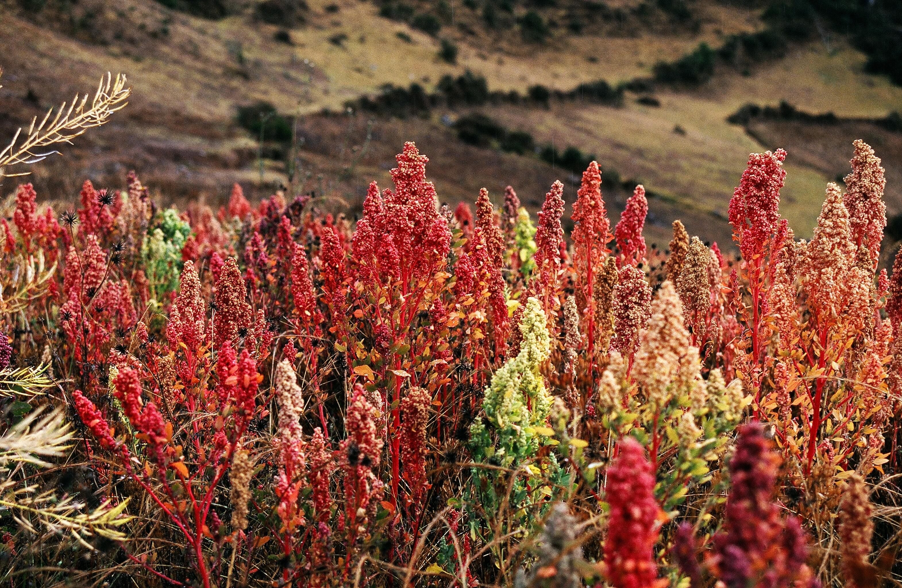 Quinua (Quinoa) plants near Cachora, Apurímac, Peru. Altitude: 3800m